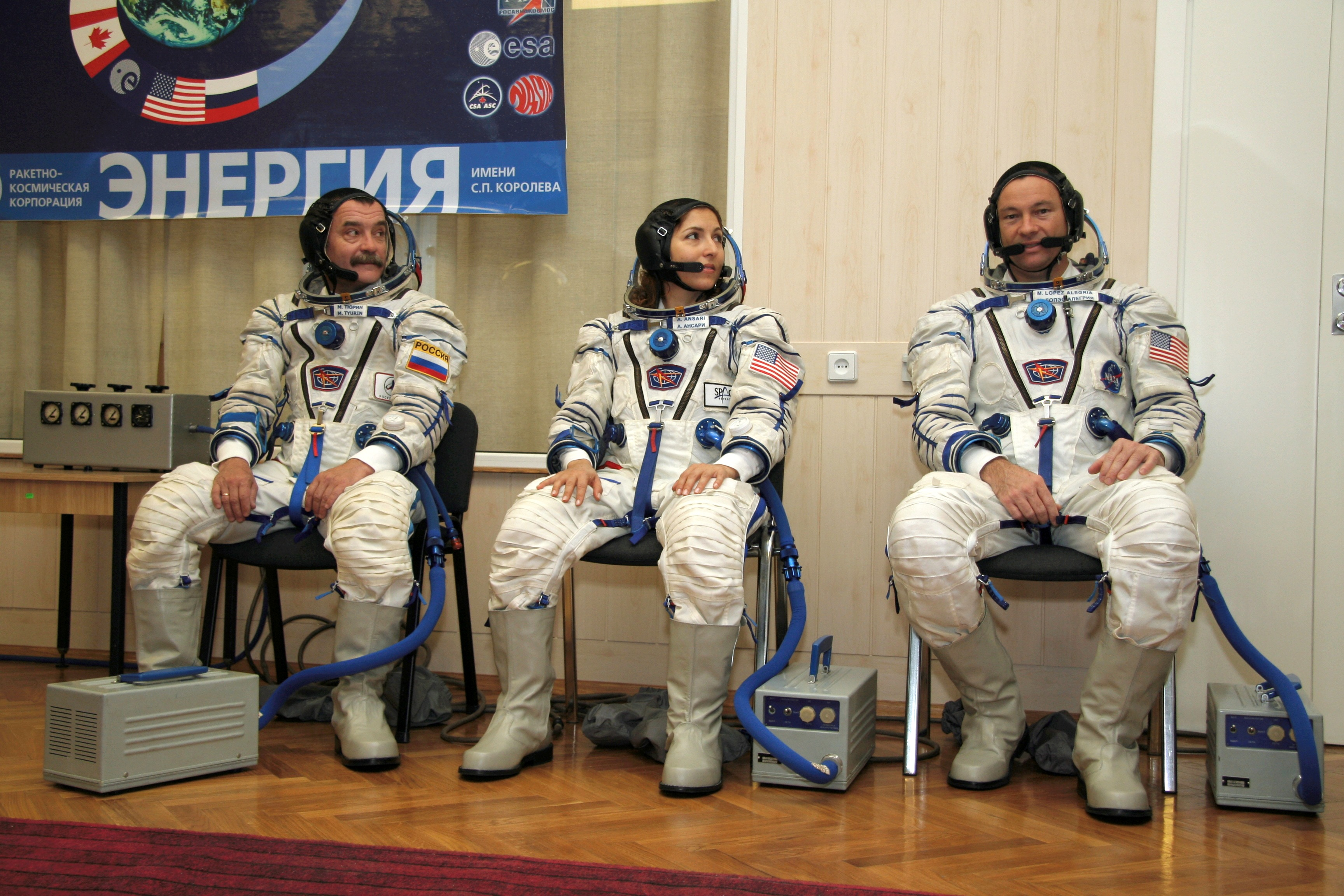 JSC2006-E-39235 (4 Sept. 2006) --- Astronaut Michael E. Lopez-Alegria (right), Expedition 14 commander and NASA space station science officer; spaceflight participant Anousheh Ansari; and cosmonaut Mikhail Tyurin, flight engineer representing Russia's Federal Space Agency, take a moment to review procedures during their launch dress rehearsal activities at the Baikonur Cosmodrome in Kazakhstan on Sept. 4, 2006 as they prepare for their launch to the International Space Station scheduled for Sept. 18. Photo credit: Victor Zelentsov/NASA